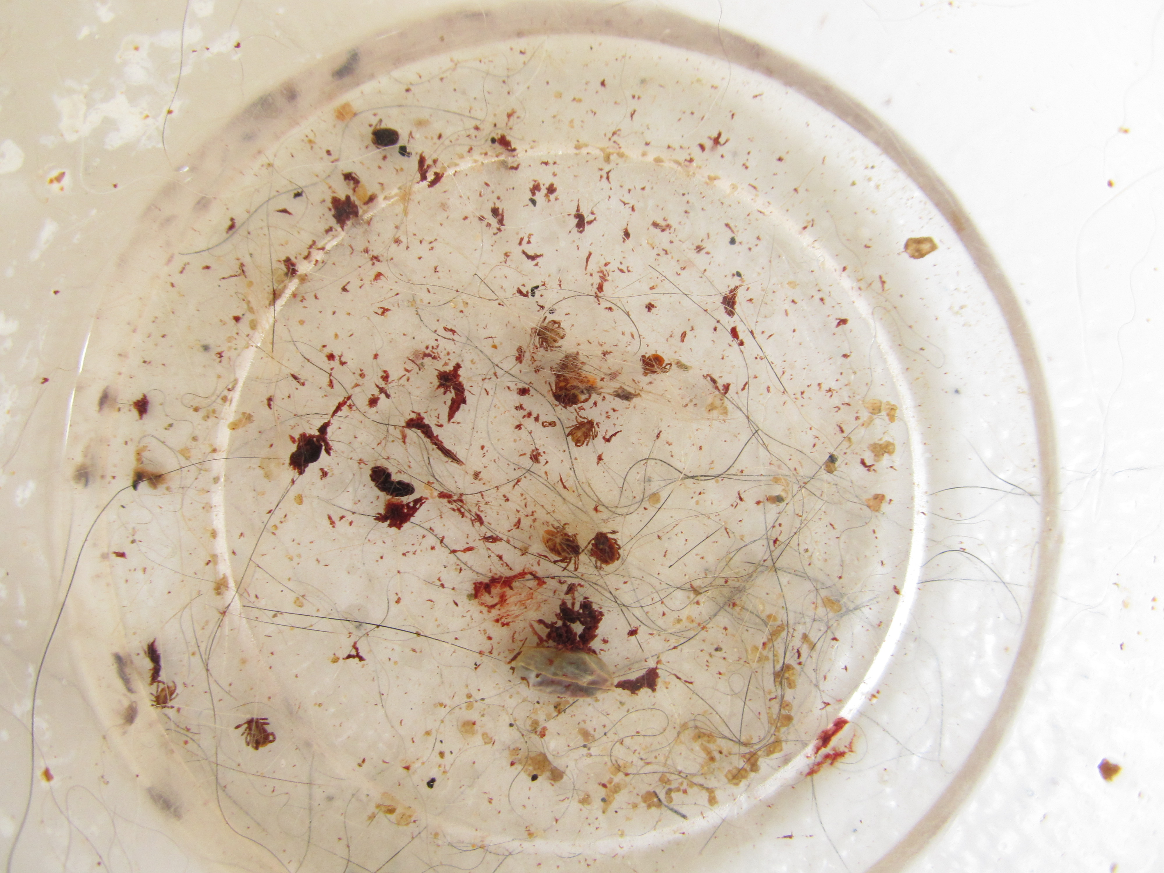 Some ticks freshly put at an alcohol solution